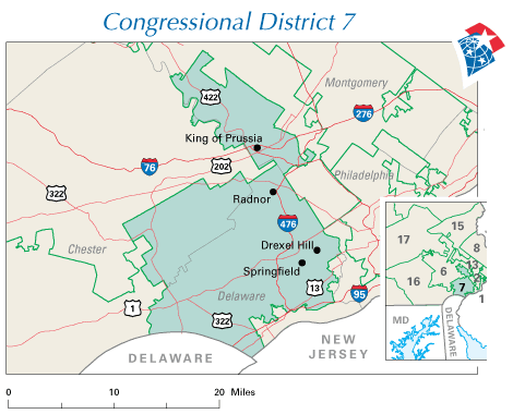 Cropped from